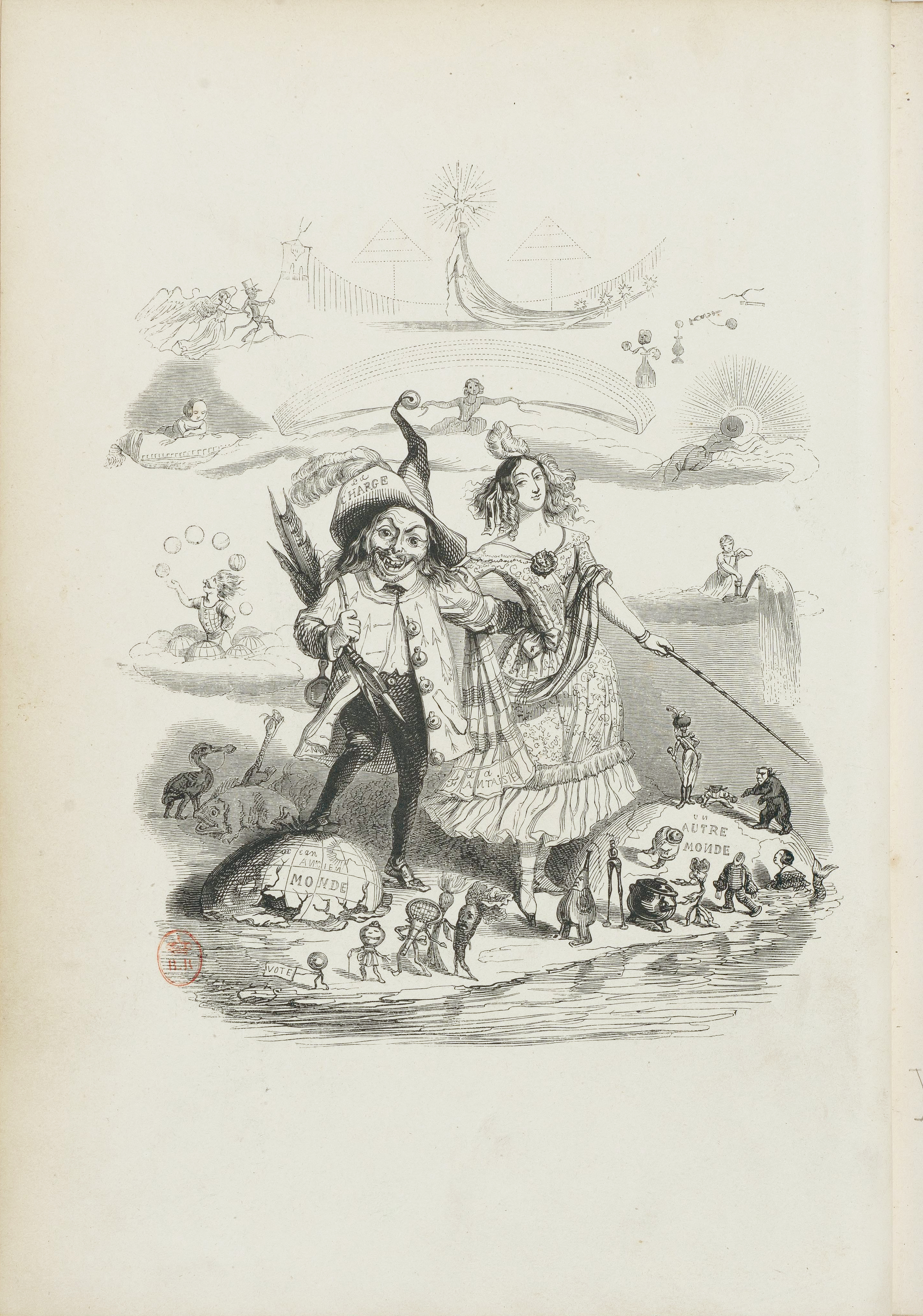 Illustration from "Un Autre Monde" by the french artist Grandville, frontispiece.